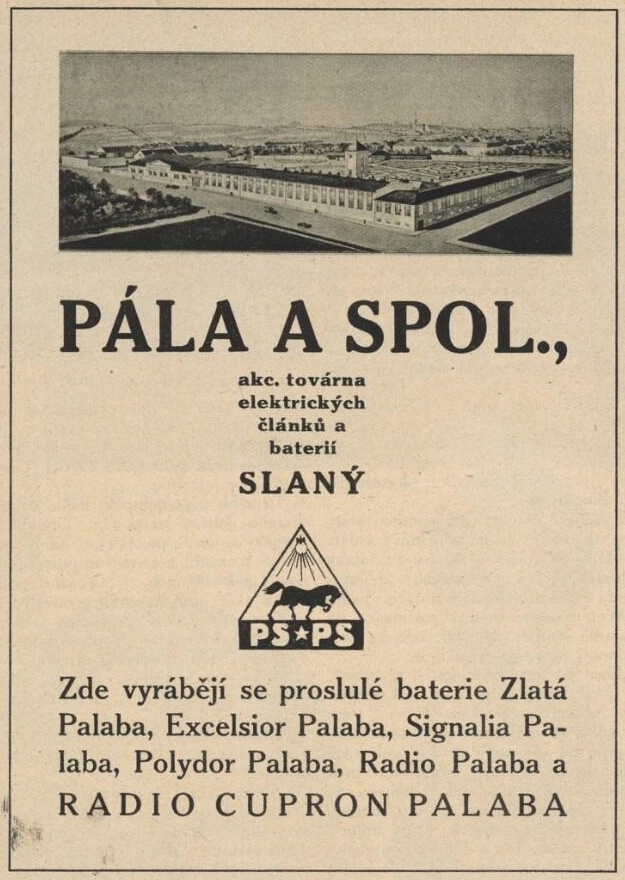 Company Pála a spol., Publicity, 1927